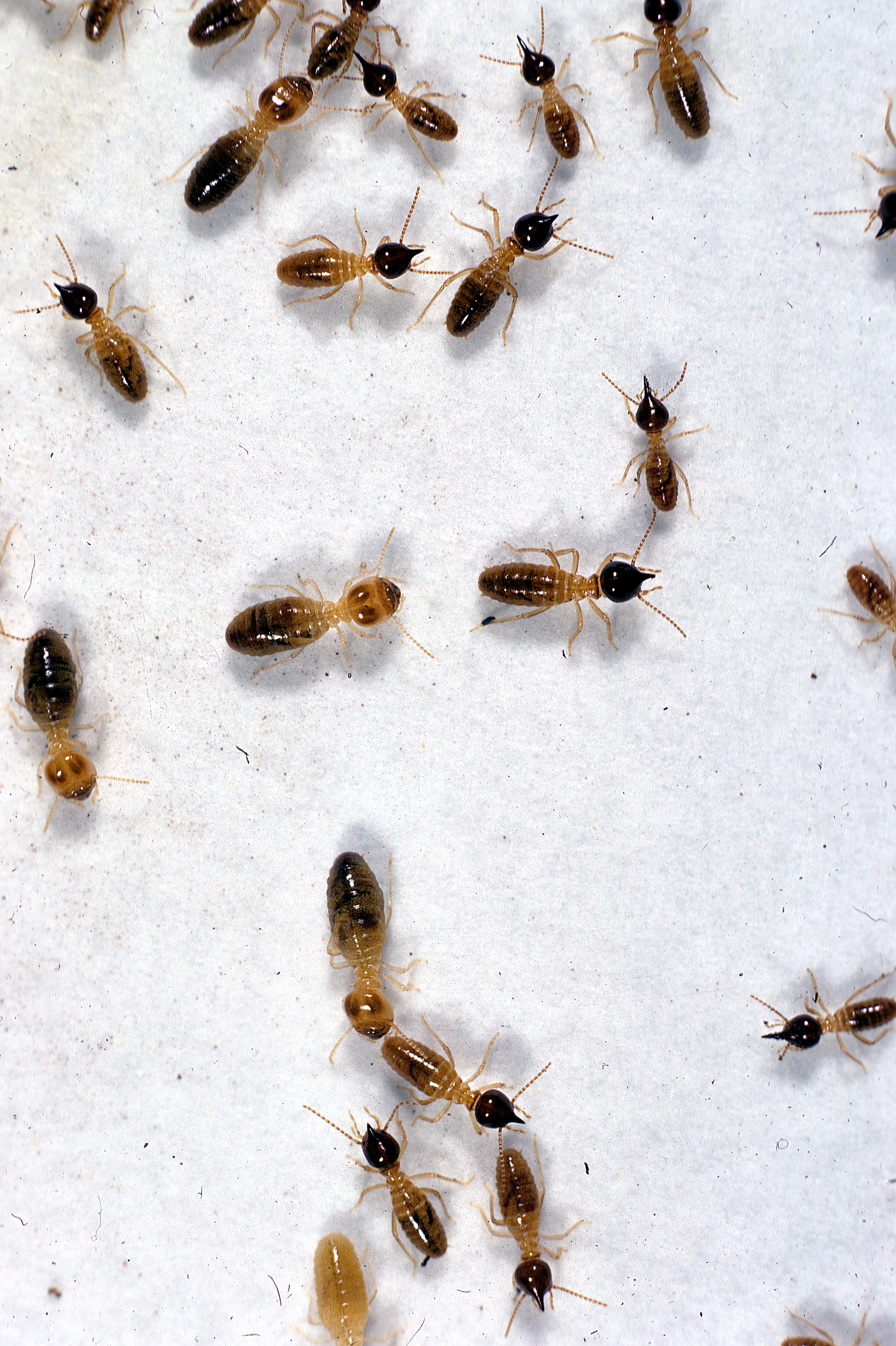 Nasutitermes triodiae soldiers and workers. For an image of the Nasutitermes triodiae mound please refer to BE1485.